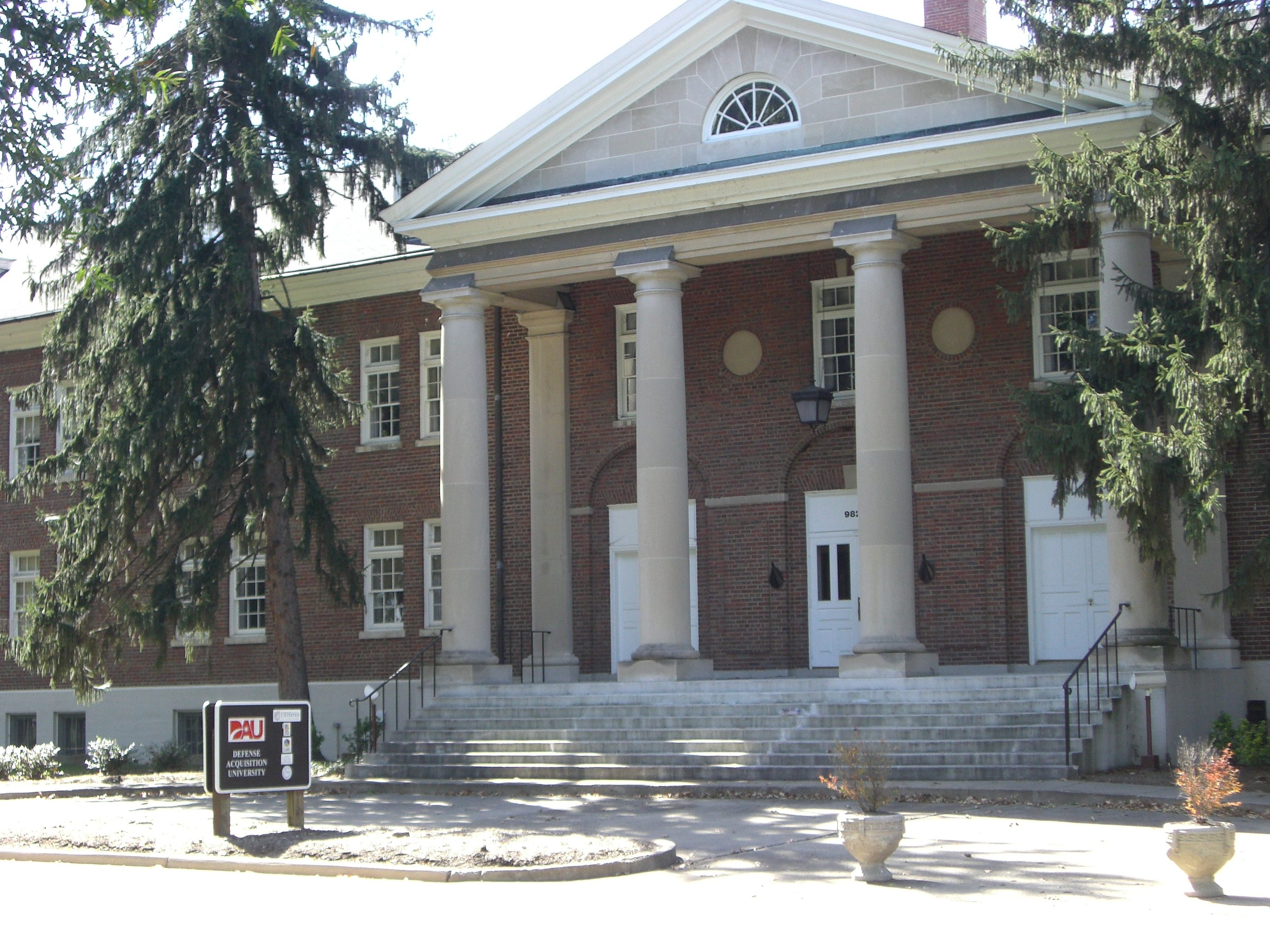 Defense Aquisition University, Fort Belvior, Virginia